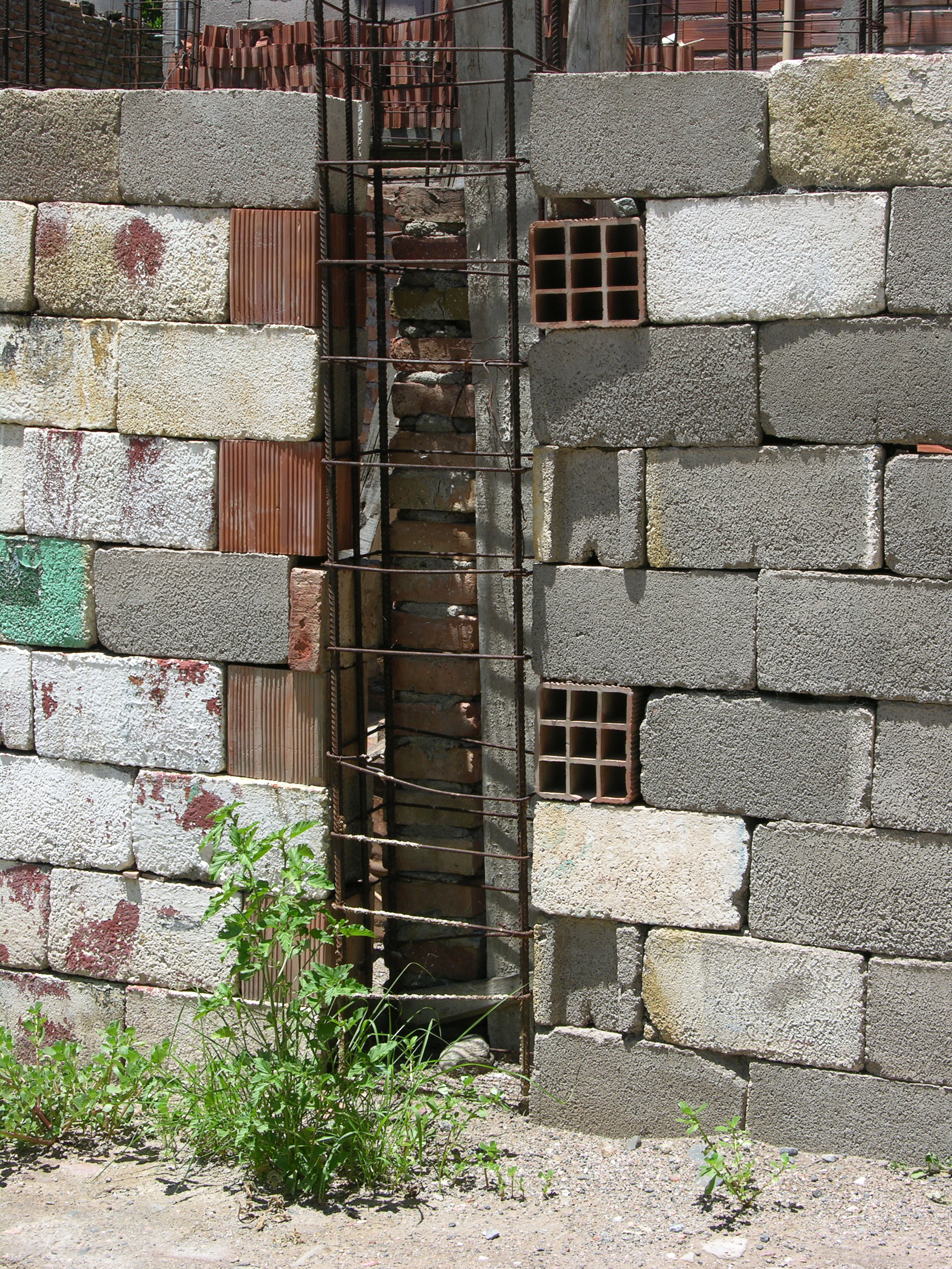 Contraditions in spontaneous techniques